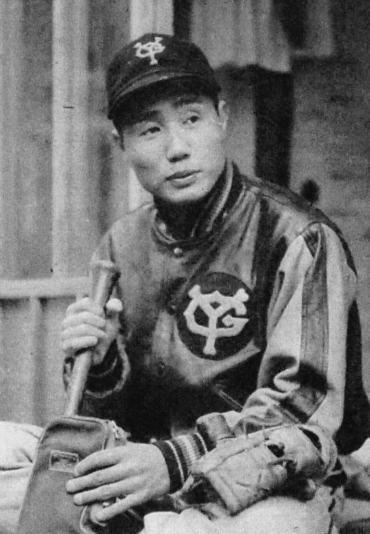 Minoru Kakurai